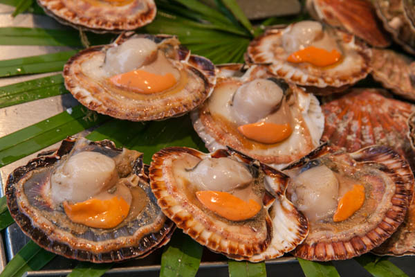 There is no way away around it - the food in Paris is incredible. On the day my old friends Francie and Bernadette came over from Belgium we did a long marching tour of Paris - and went through an open air market - my God - the smells and sights - it was sensory overload - great food everywhere. We sampled some it - oo la la - but it was just around closing time and they were putting everything away or I could have lingered there for hours. Who wants to go sightseeing when there is good food to be had? - Coquilles Saint-Jacques